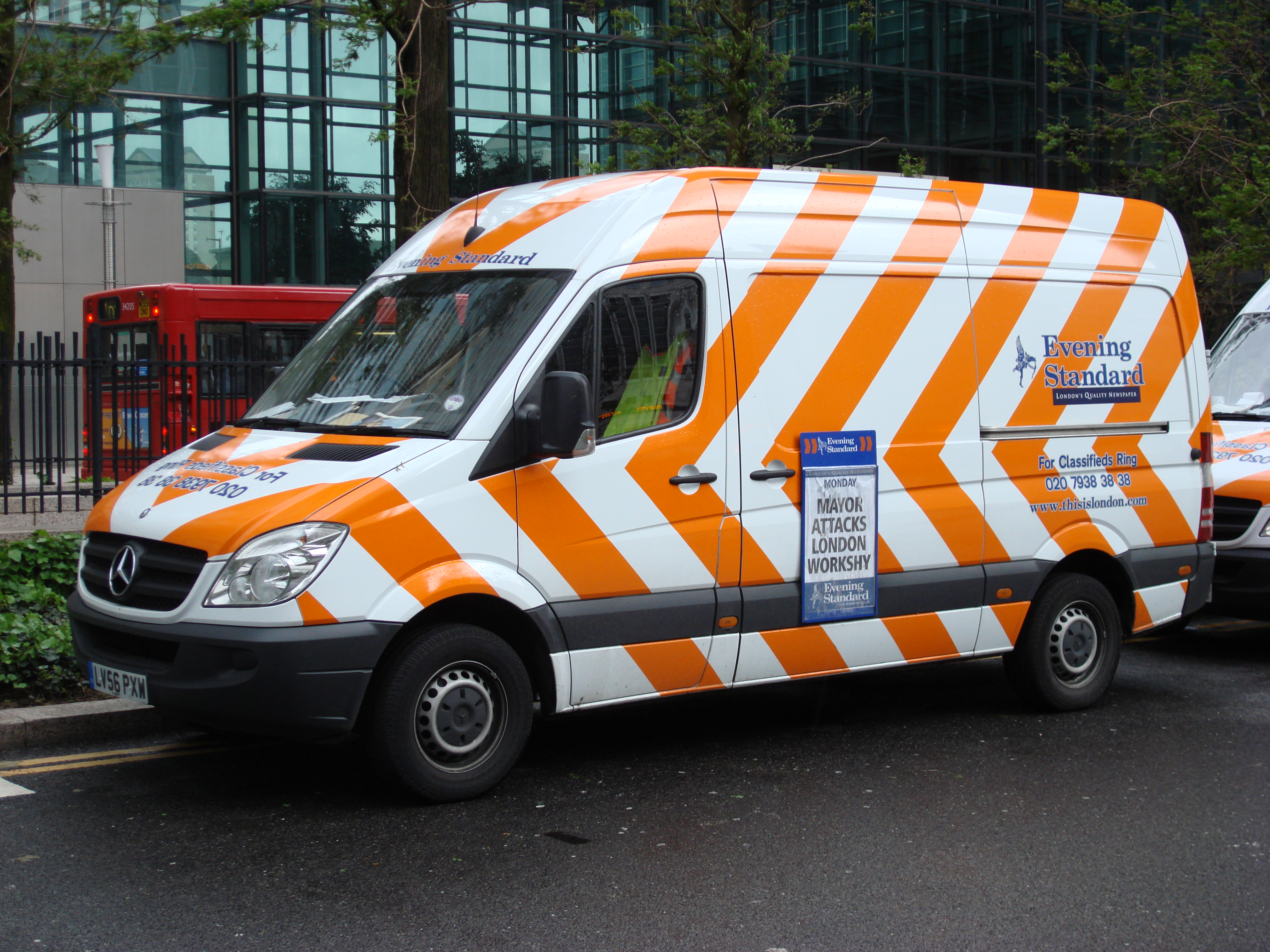 Evening Standard Van Mercedes-Benz Sprinter at Canary Wharf London